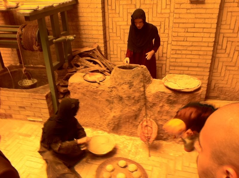 Baking bread in a traditional Iraqi way